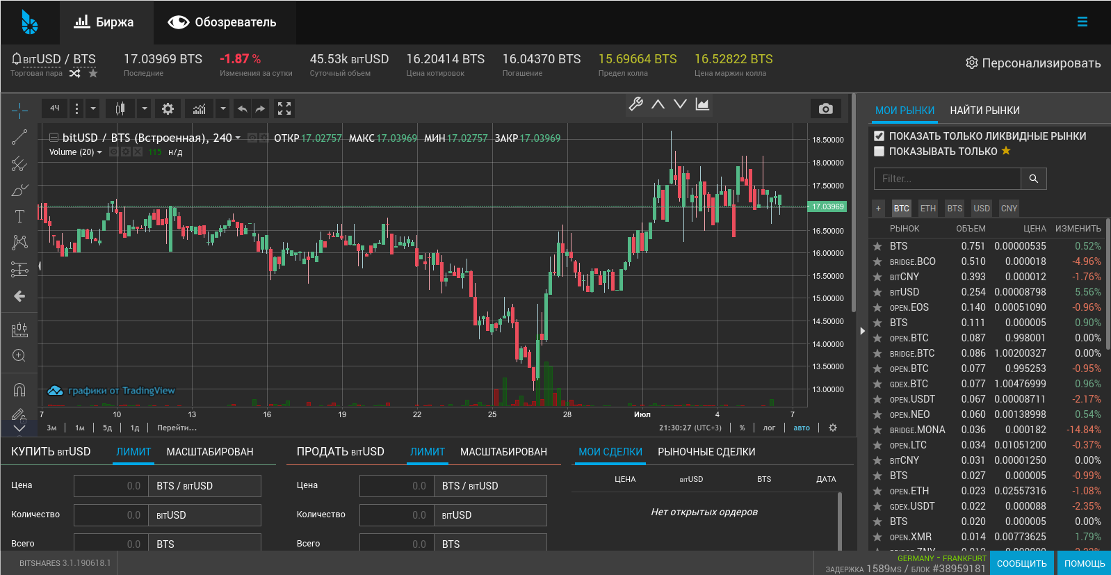 BitShares UI 3.1.190618 (ru) screenshot